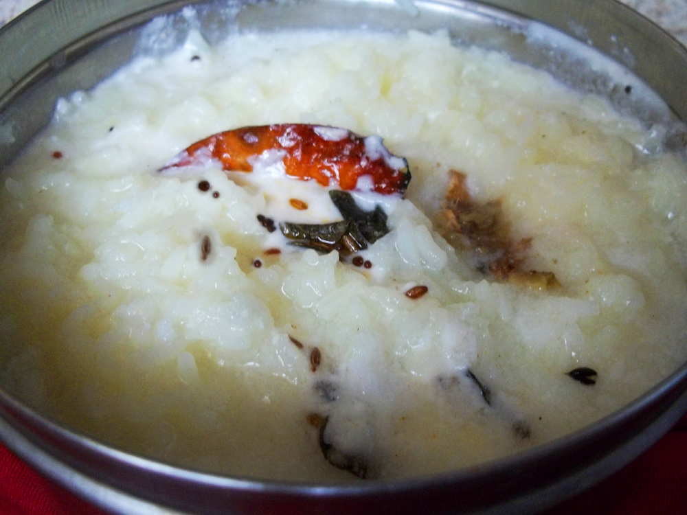 Odia cuisine Pakhala made from rice, water and seasoned with natural spices.